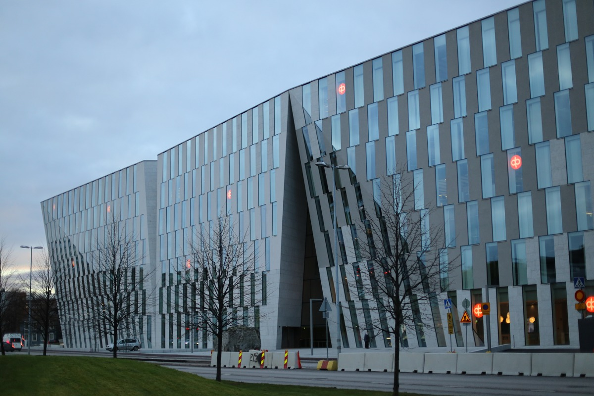 OP Financial Group new building in Vallila District in Helsinki. Original 5472x3648 pix.